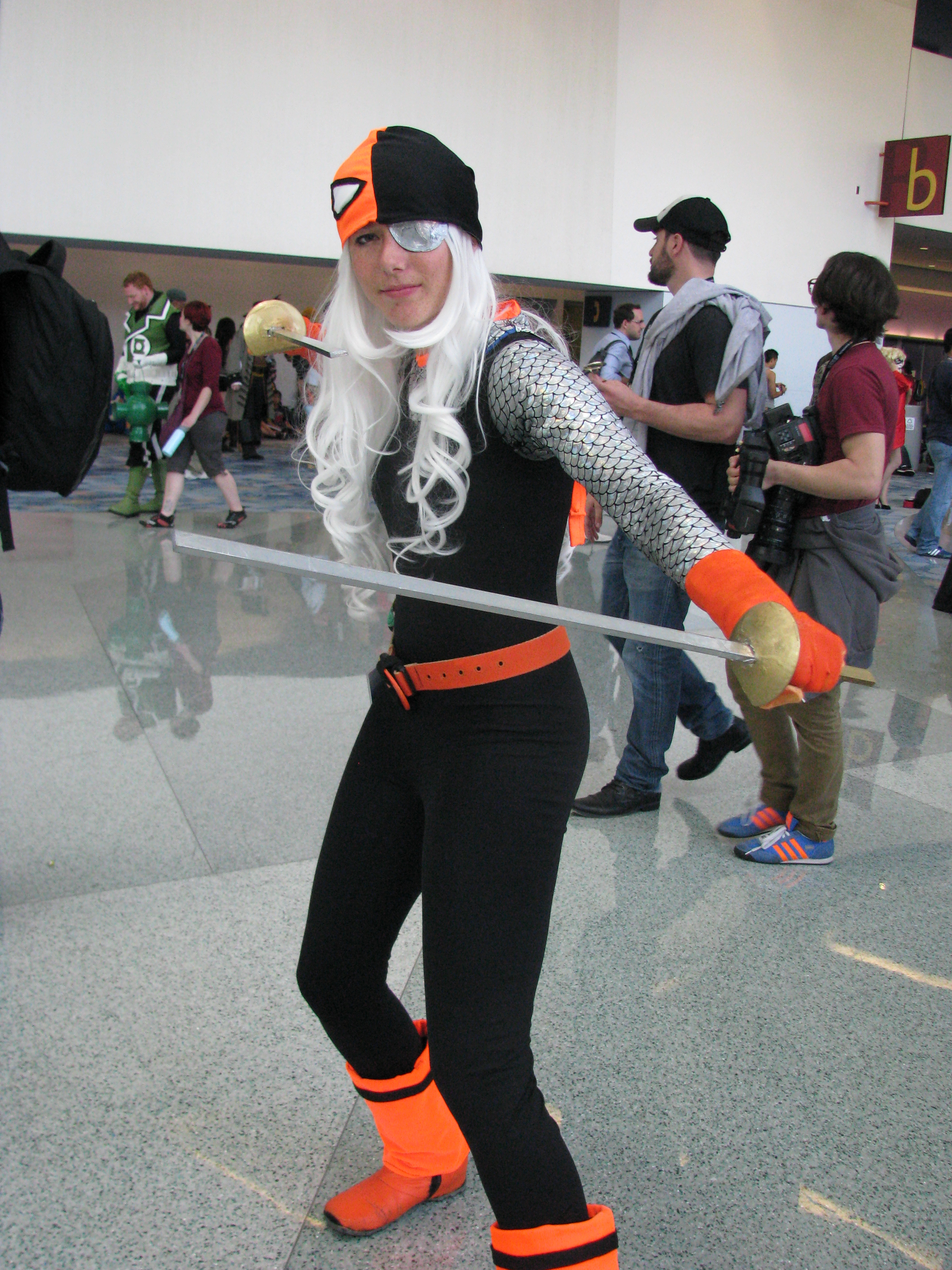 WonderCon 2014 - Ravager Cosplay